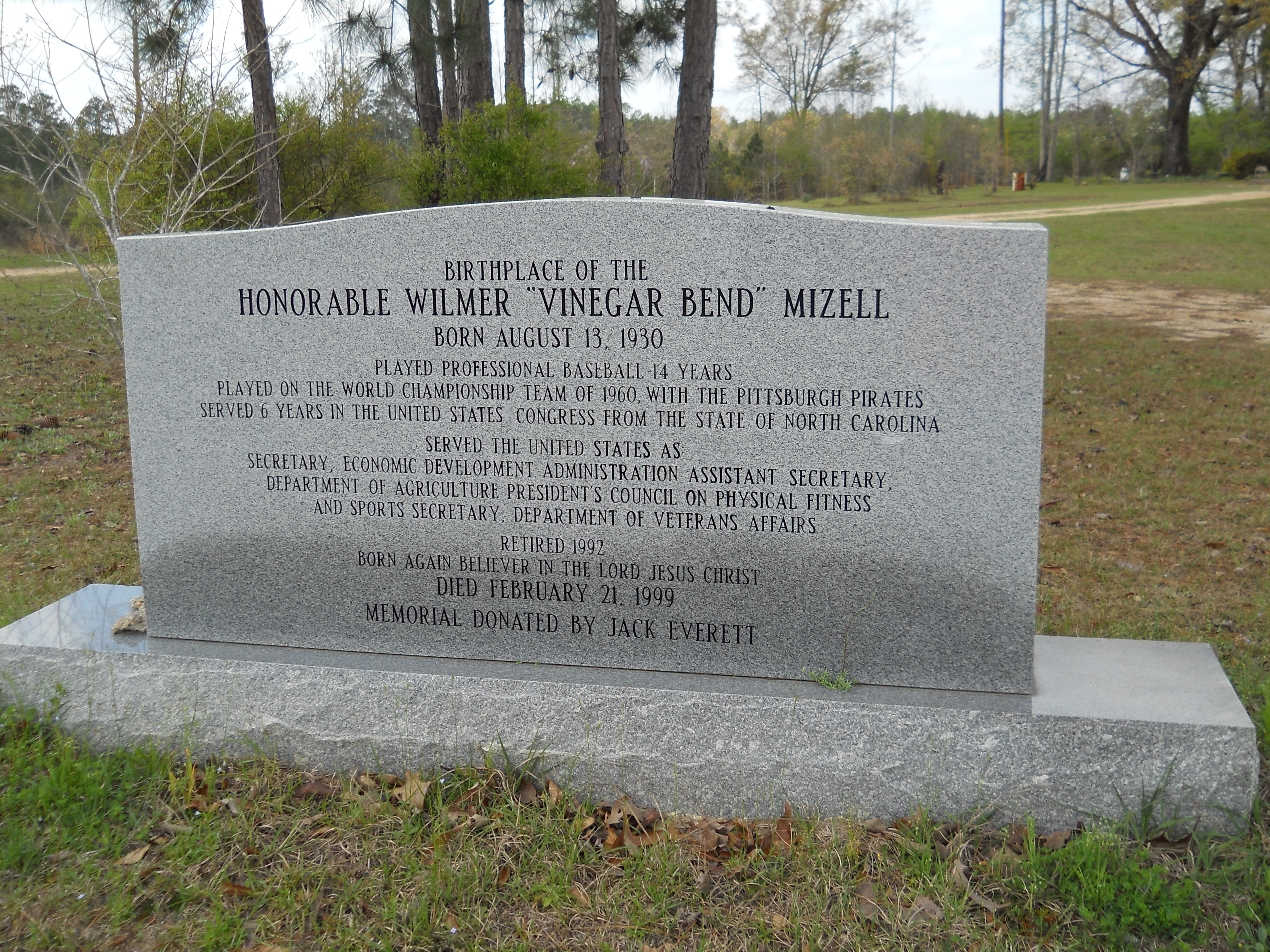 Birthplace marker and memorial to American professional baseball player and congressman Wilmer Mizell in Vinegar Bend, Alabama.